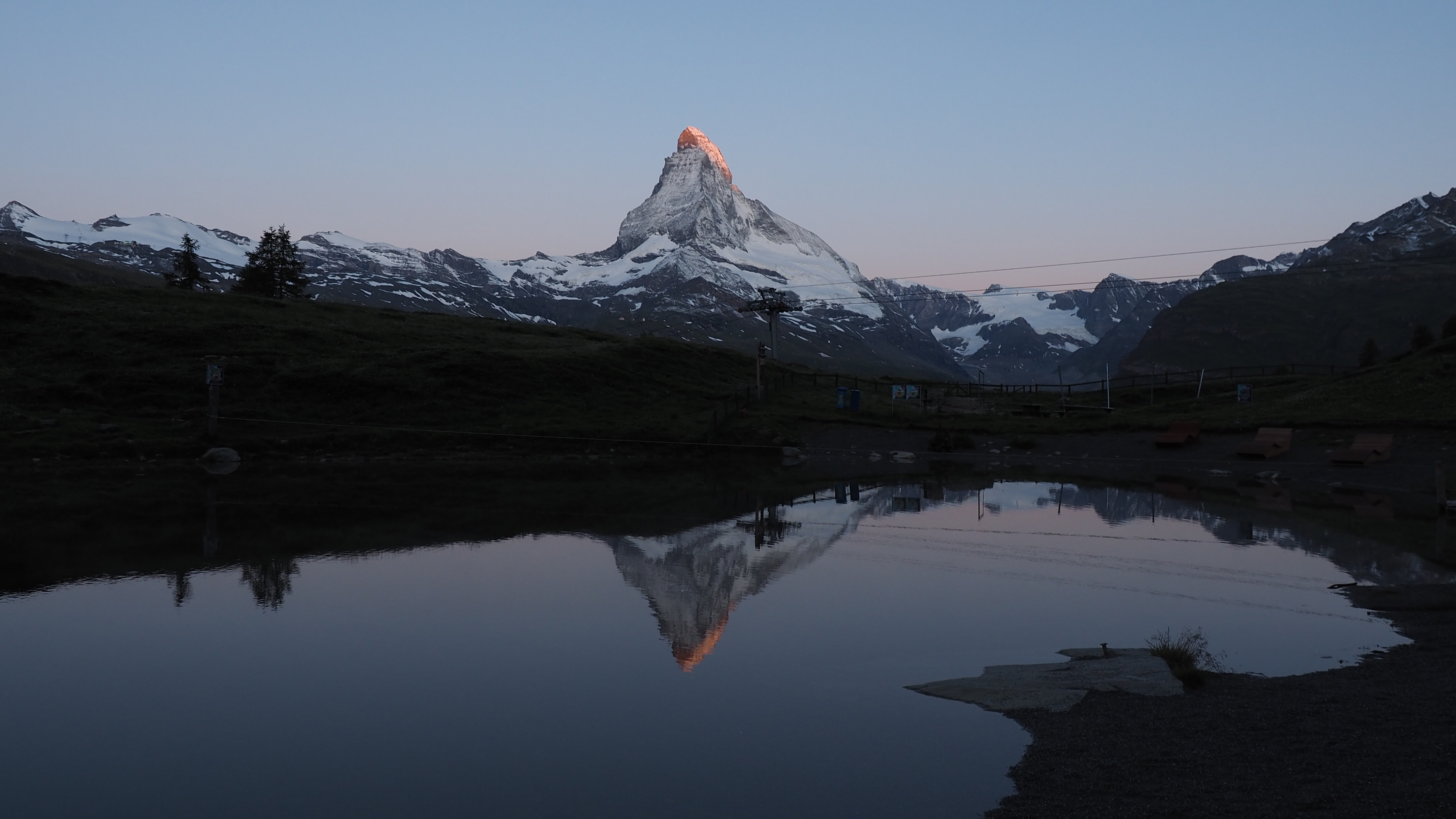 Leisee and Matterhorn in Zermatt, Switzerland (Jul. 2019)